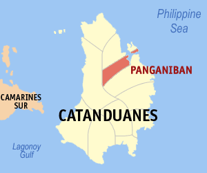 Map of Catanduanes showing the location of Panganiban